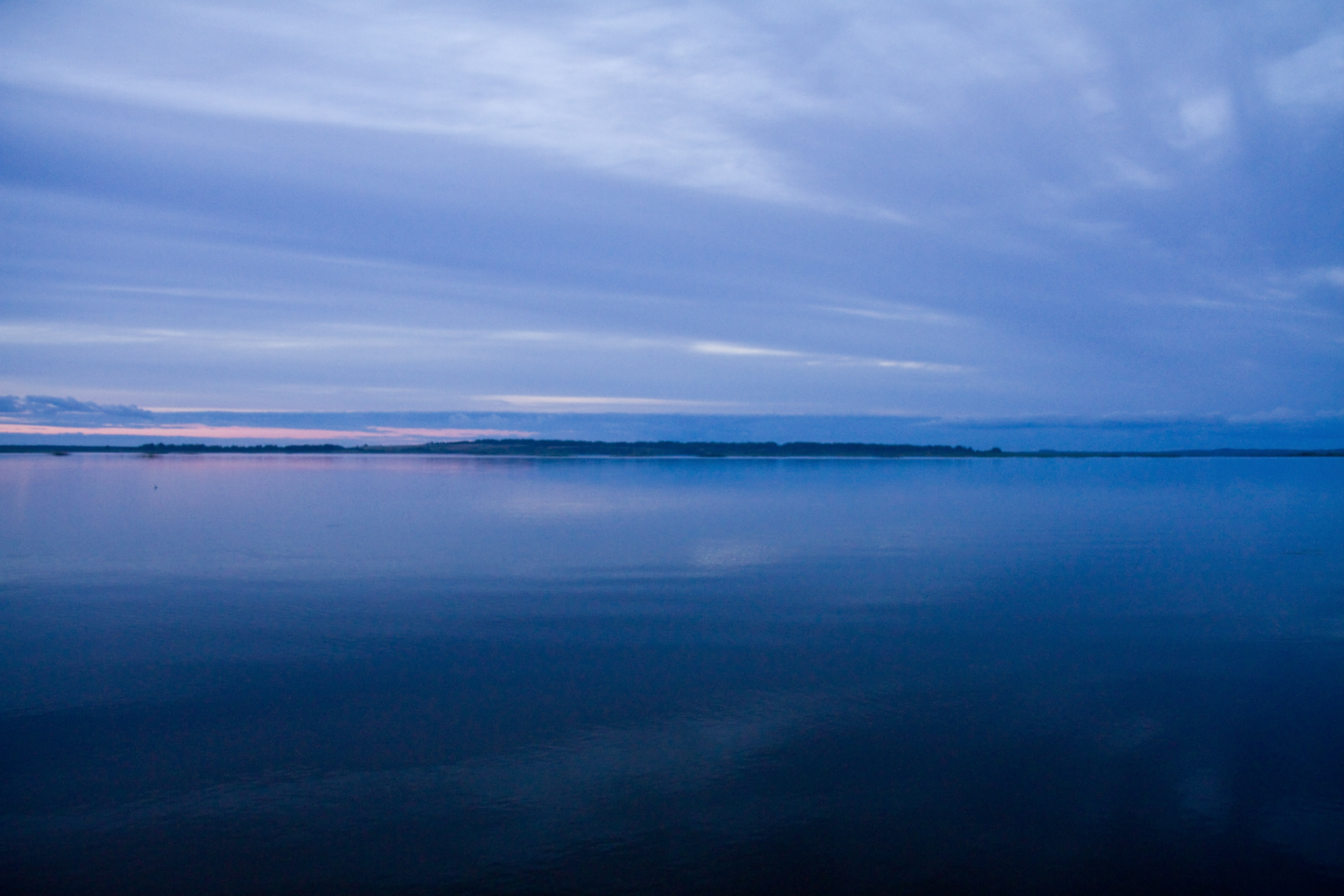 Aśviejskaje Lake. Vierchniadźvinsk district, Viciebsk province, Belarus.